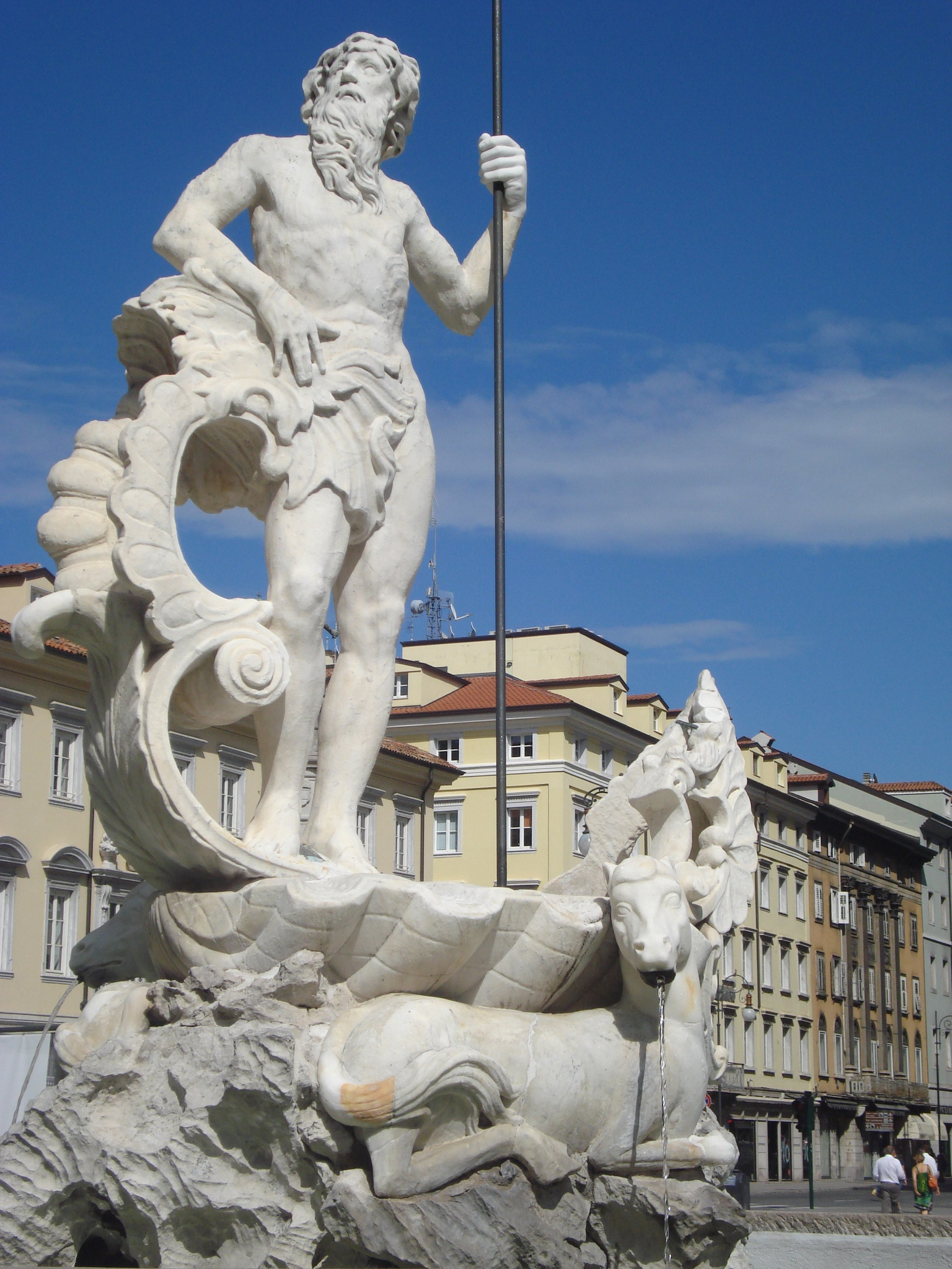 Neptune's fountain on Stock Exchange Square in Triest, Italy - detail